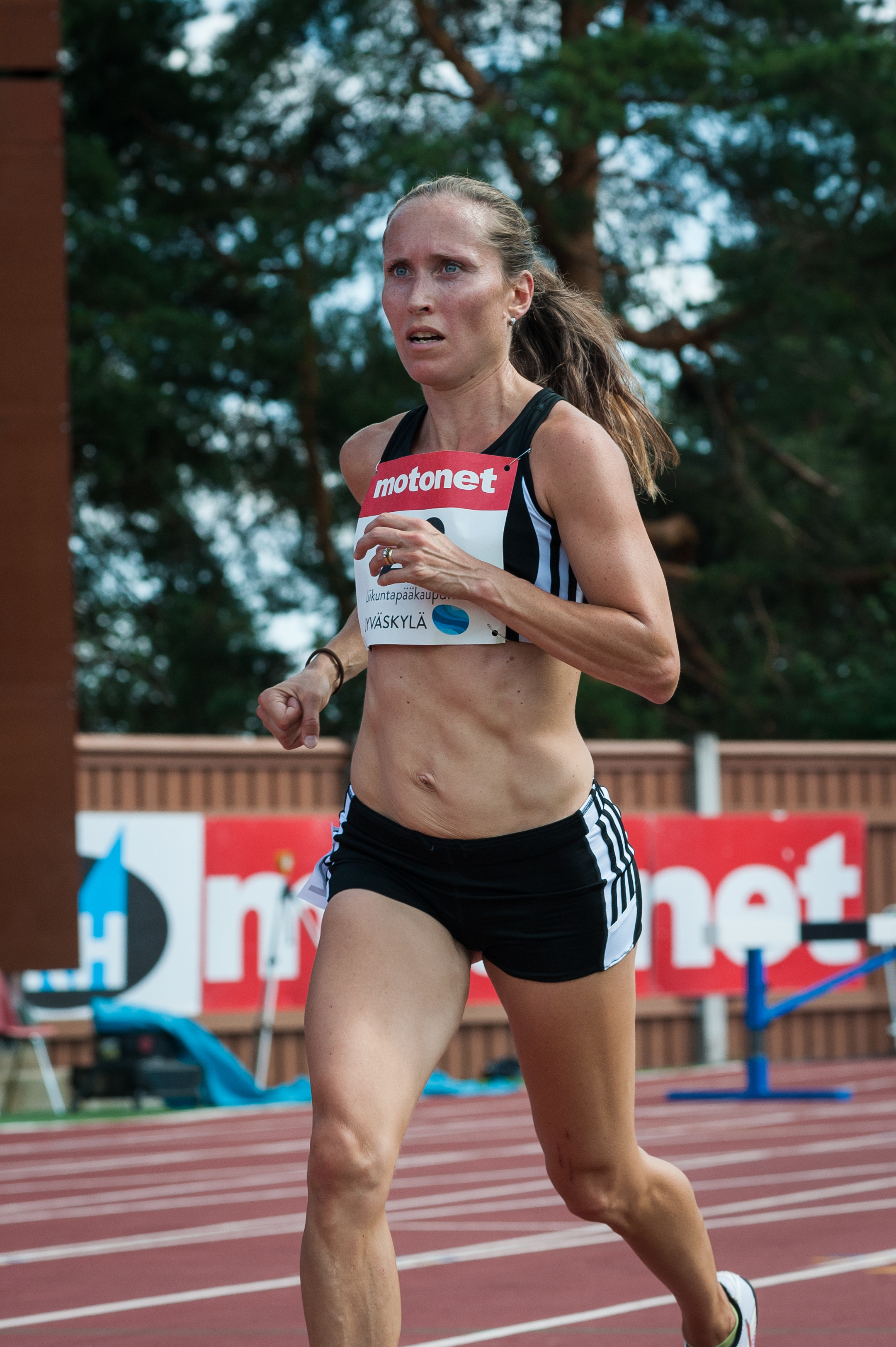 Women's 5000 m competition at the 2018 Kalevan Kisat, the Finnish championships in athletics, in Jyväskylä, Finland.